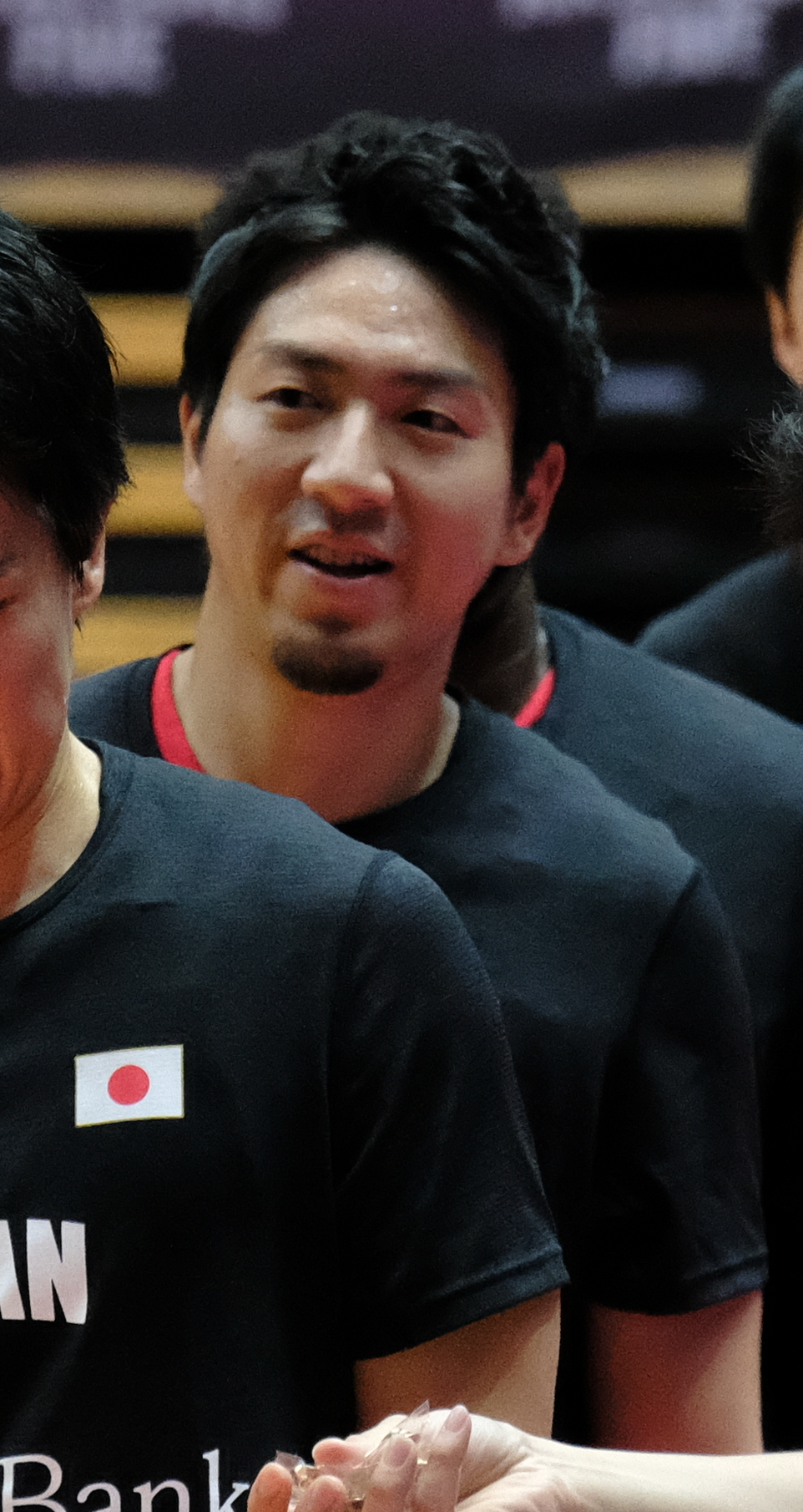 2019 FIBA Basketball World Cup qualification, Japan vs Iran